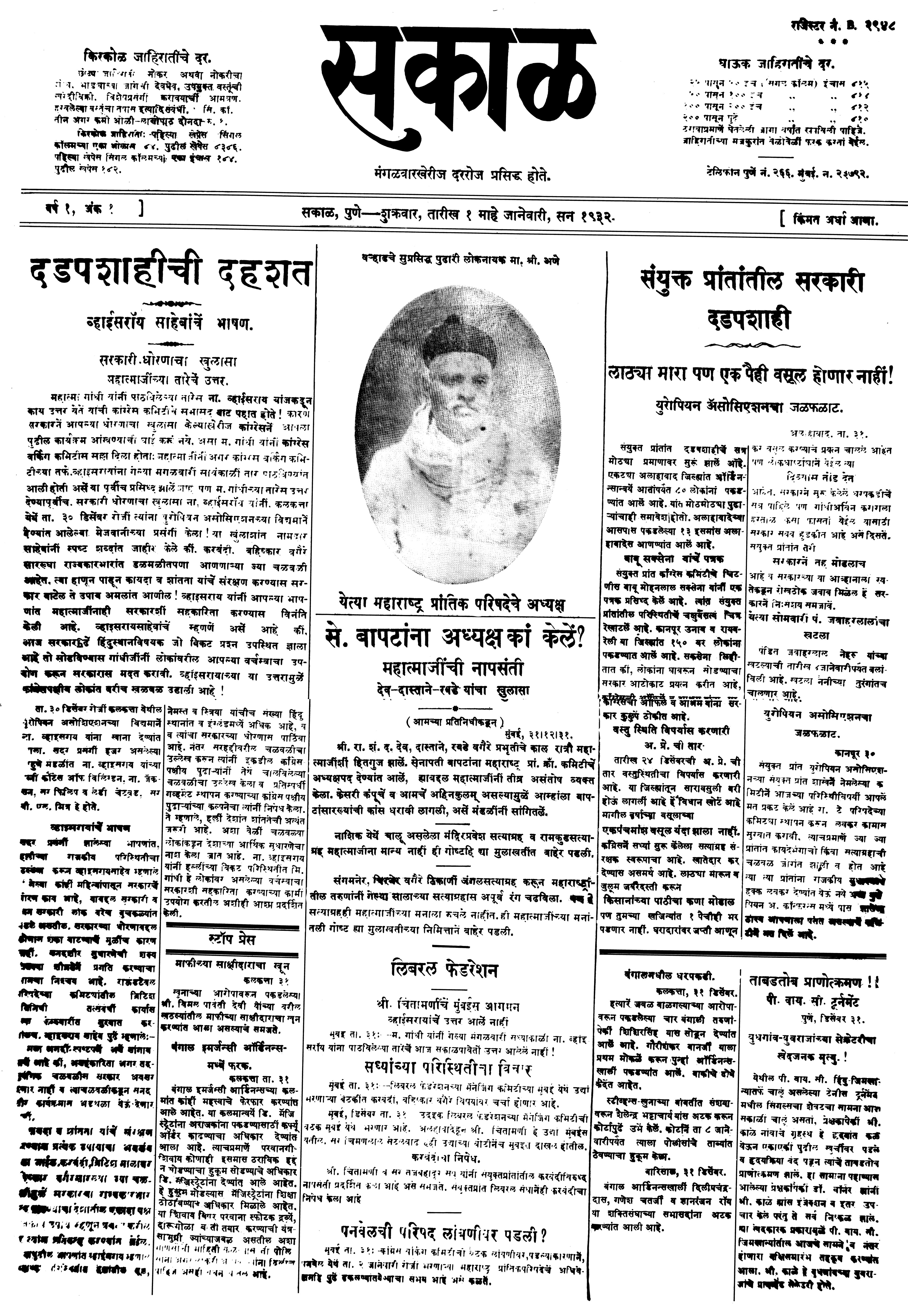 This is the first issue of Daily Sakal. The work published on 1st January 1932.